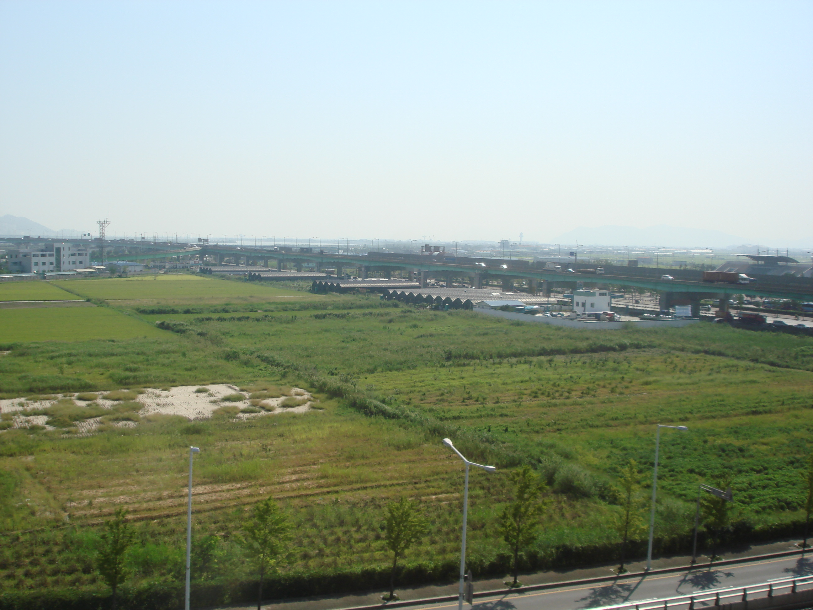 North view of Gangseo-gu, Busan, South Korea. Taken from the Busan Subway Line 3.